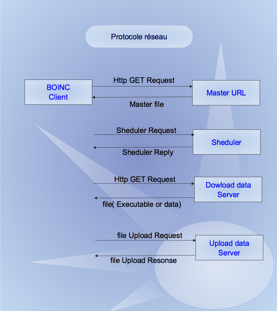 Network Protocole